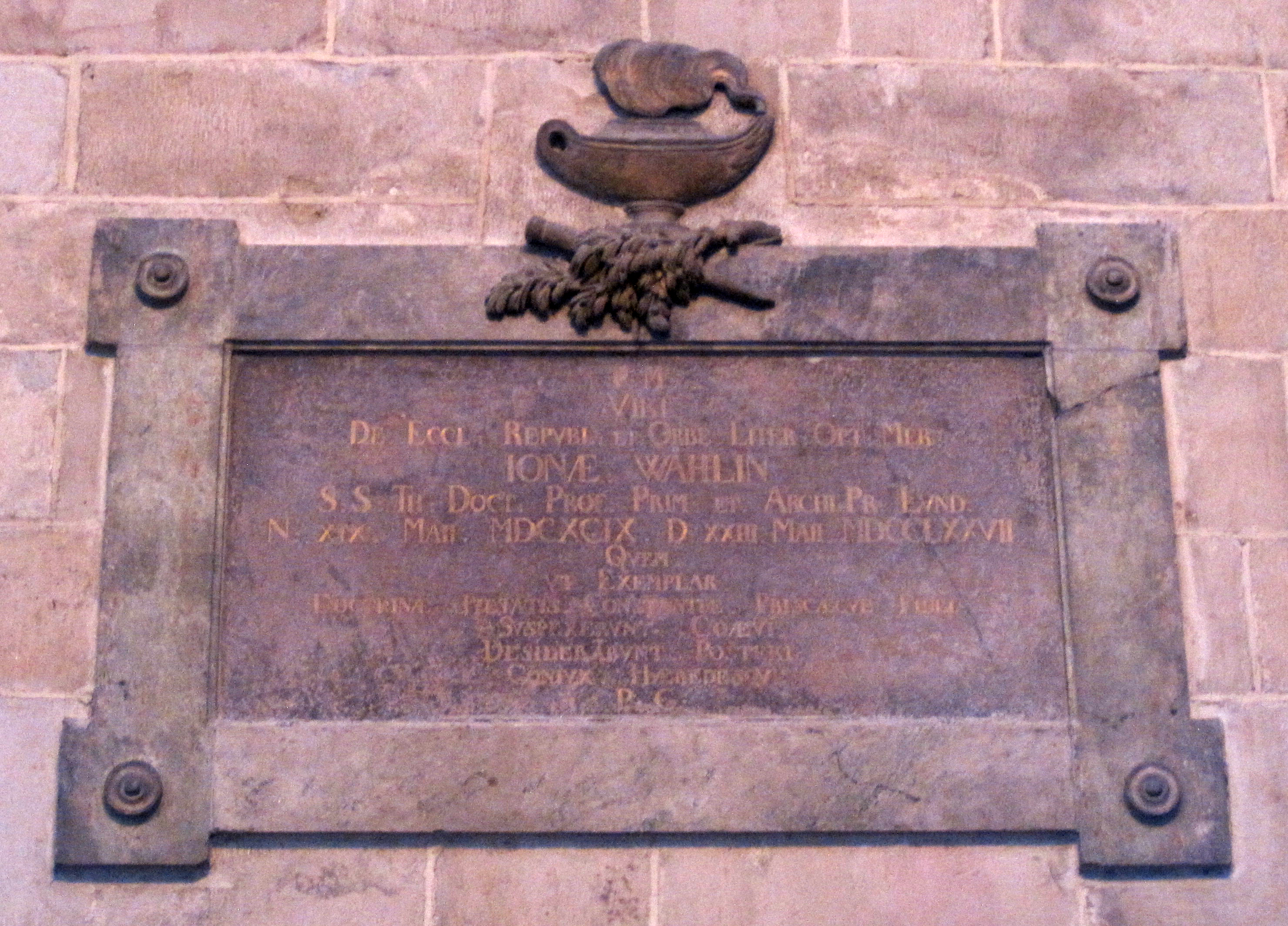 Epitaph for Jonas Wåhlin (1699-1777), Swedish theologian, professor and clergyman.